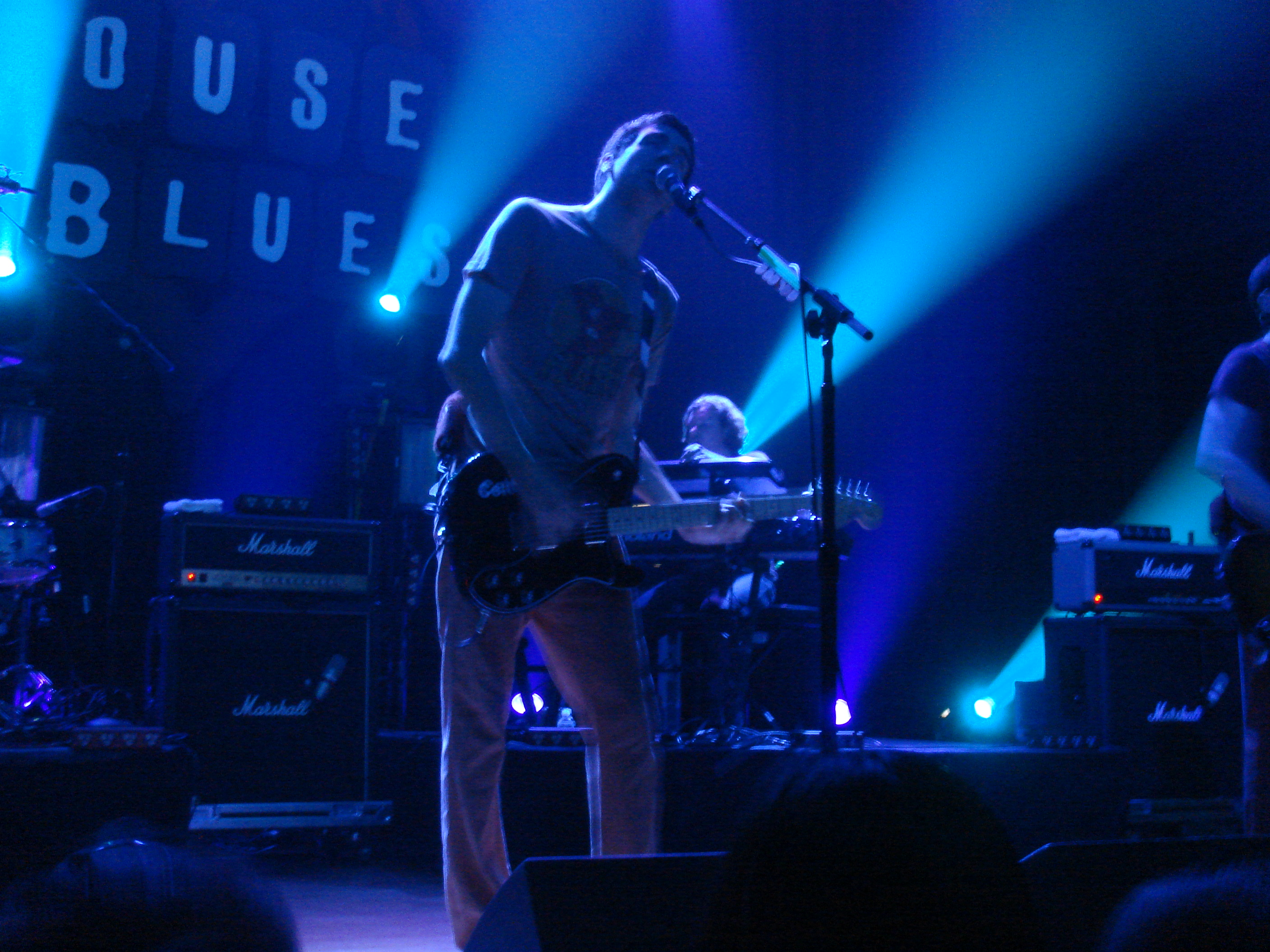 Gary Lightbody from Snow Patrol on stage at House of Blues, Las Vegas on 28 September 2006.